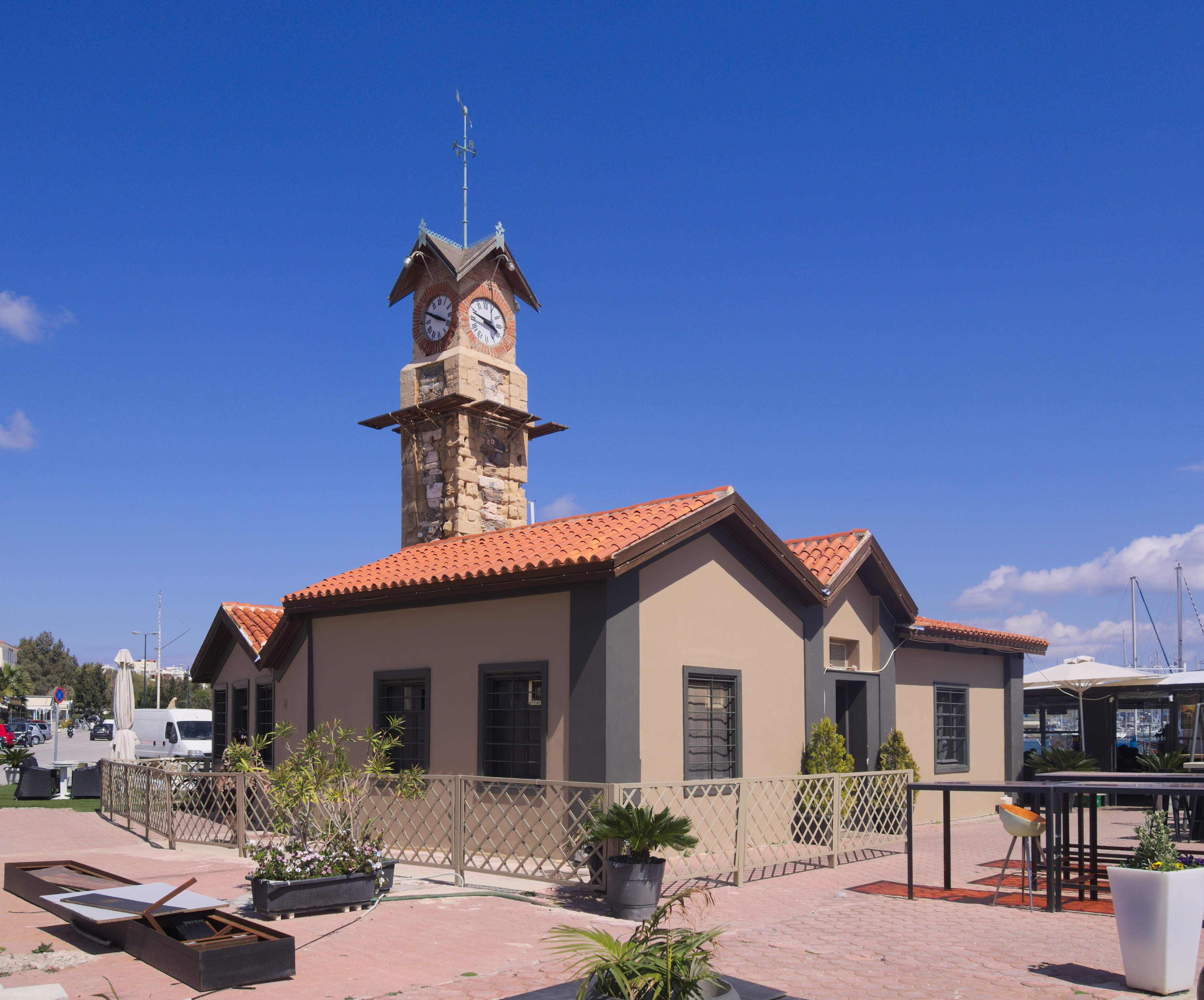 The clock tower of Lavrio, the first one built in Greece, built in 1870s.